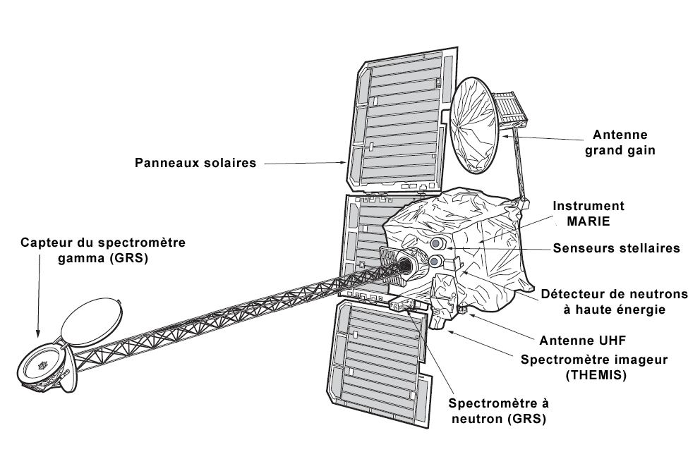 Drawing of the robotic spacecraft Mars-Odyssey with french labels